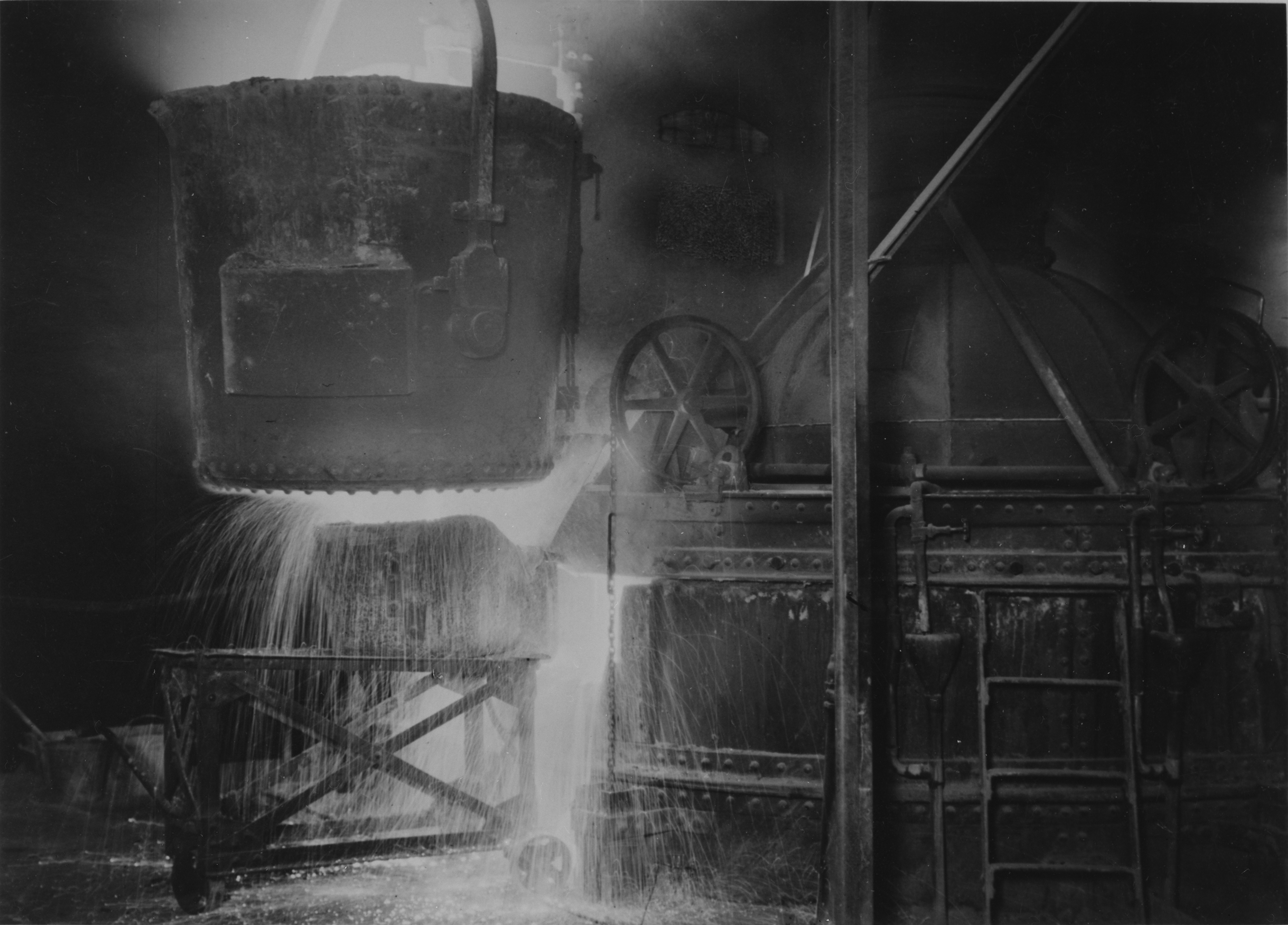 Långshyttan iron works, supply of material into an induction furnace, Dalarna Sweden